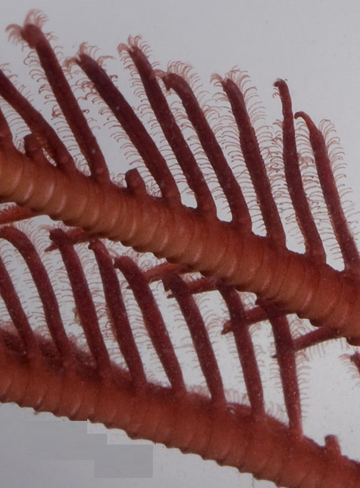 Podia of a red feather star (Himerometra robustipinna)More about this feather star on the wildfacts sheets on wildsingapore. For a high res version of this photo, please review the details on about using my photos. When making the request, please include this reference: 120123hntd5776